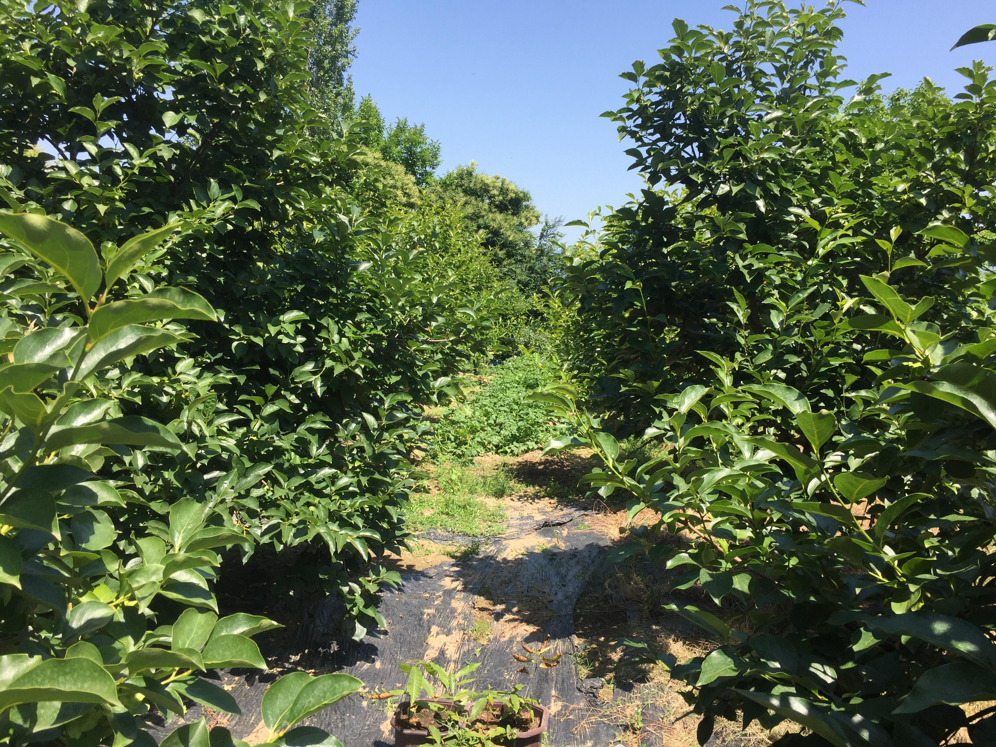 Apple orchard in Kolesino village